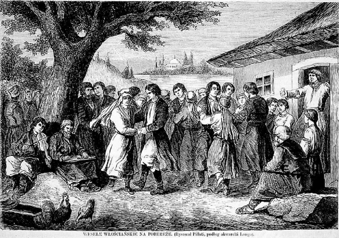 Podilya